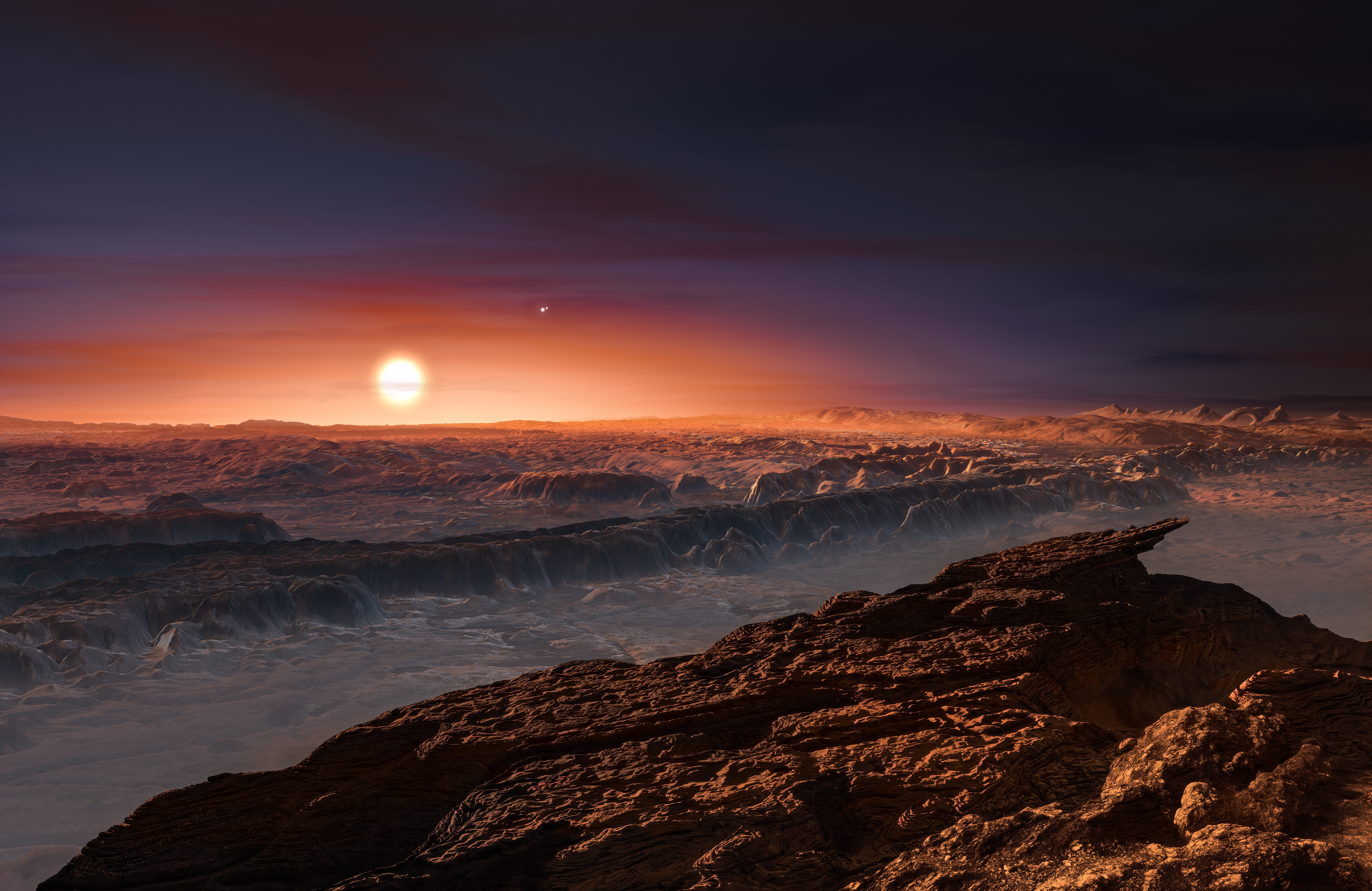 This artist’s impression shows a view of the surface of the planet Proxima b orbiting the red dwarf star Proxima Centauri, the closest star to the Solar System. The double star Alpha Centauri AB also appears in the image to the upper-right of Proxima itself. Proxima b is a little more massive than the Earth and orbits in the habitable zone around Proxima Centauri, where the temperature is suitable for liquid water to exist on its surface.